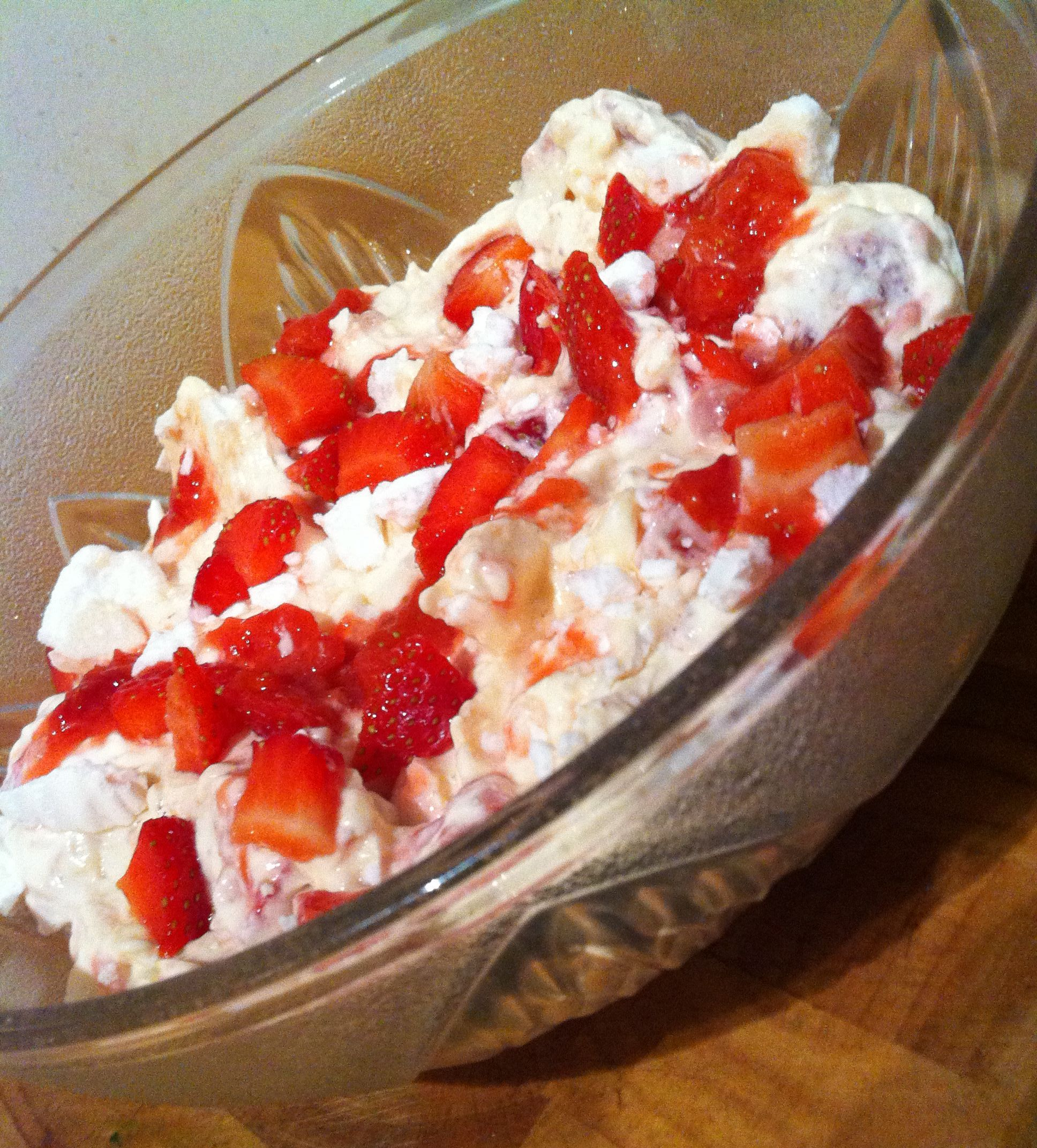 Traditional Eton Mess